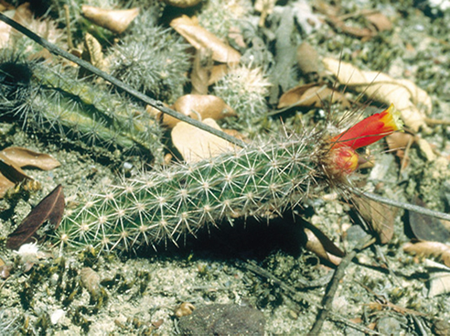 Small subspecies with smaller flowers, N Minas Gerais, Brasil